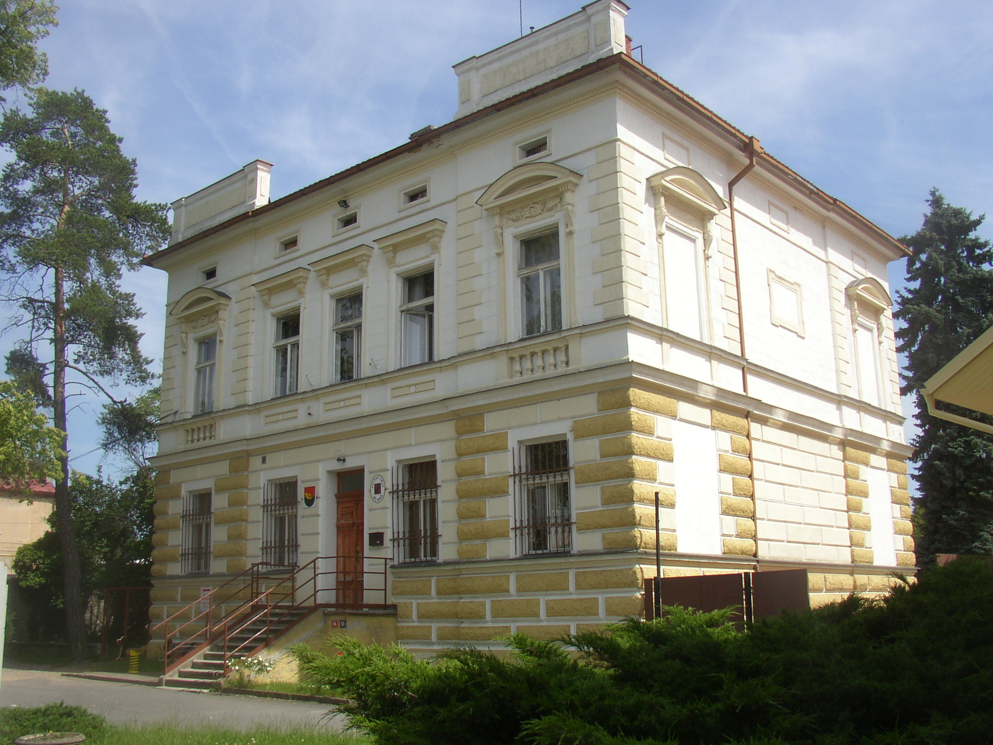 Municipal office building in Rudná (Prague-West District), Czech Republic.